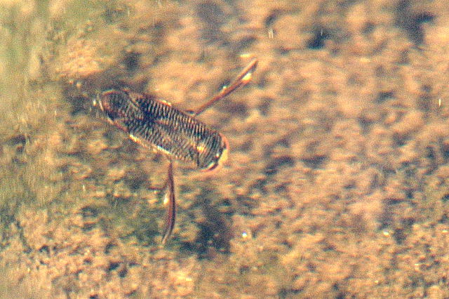 Picture taken in Commanster, Belgian High Ardennes . Species: Sigara striata